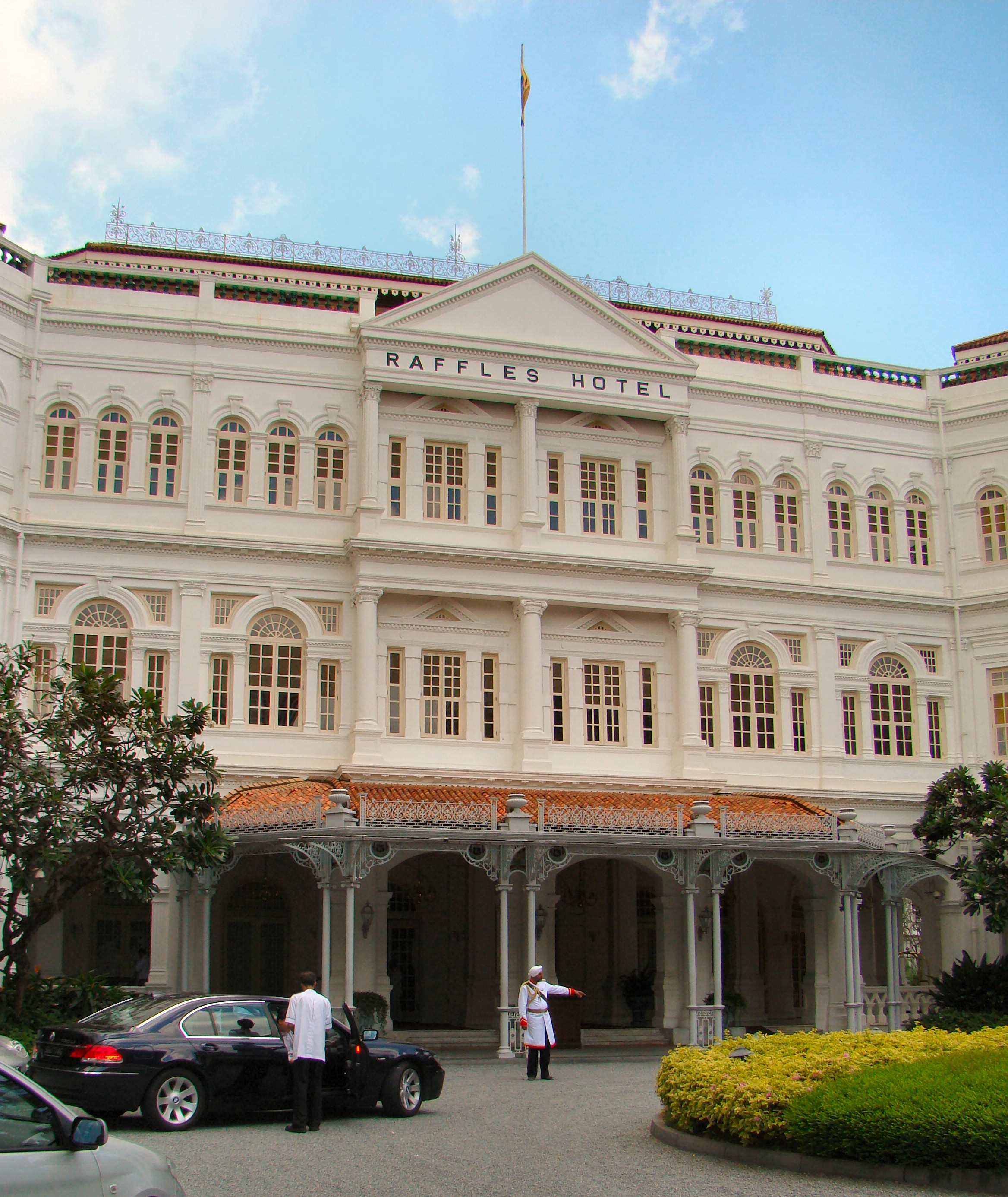 The entrance to Raffles Hotel in Singapore. Splendidly uniformed hotel employees greet the guests and indicate to them where to place their cars.